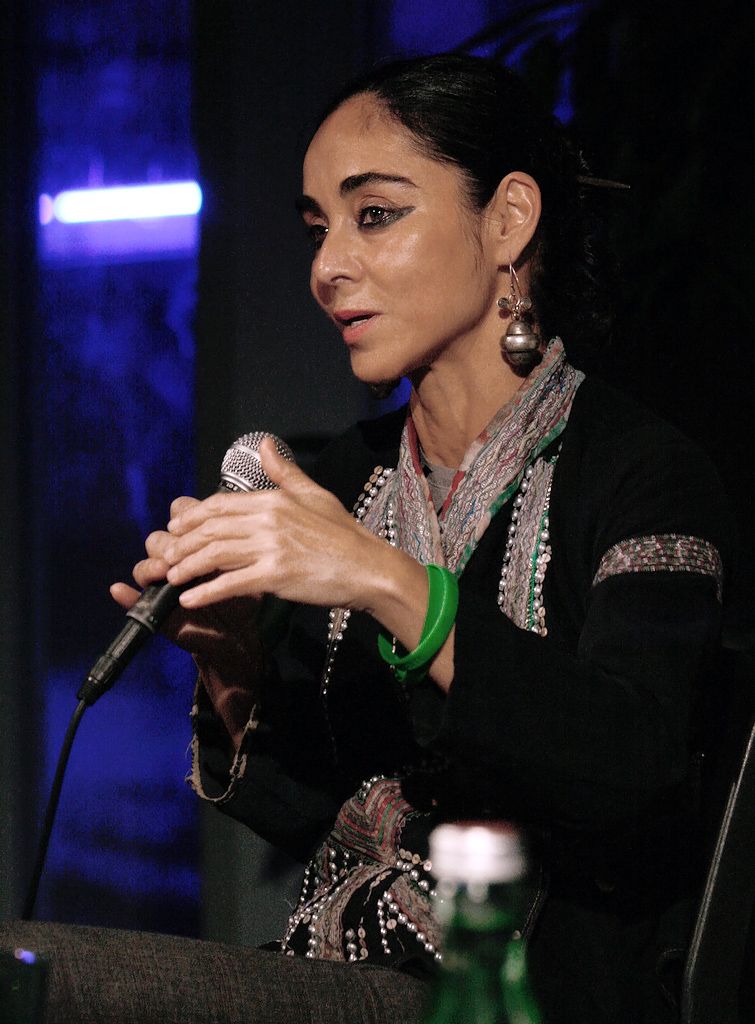 Shirin Neshat at an open discussion about her film Zanan bedun-e mardan (Women without men) during the Vienna International Film Festival 2009.